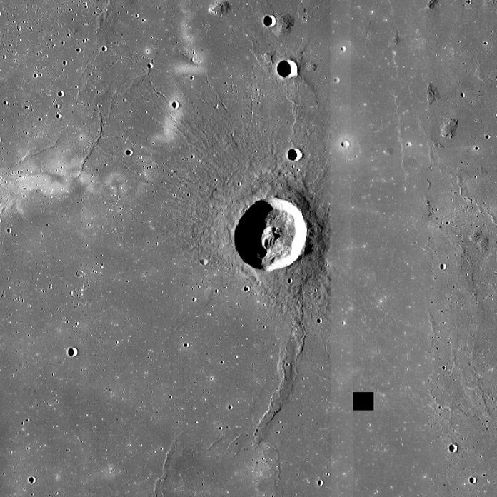 Reiner lunar crater - LRO-WAC mosaic